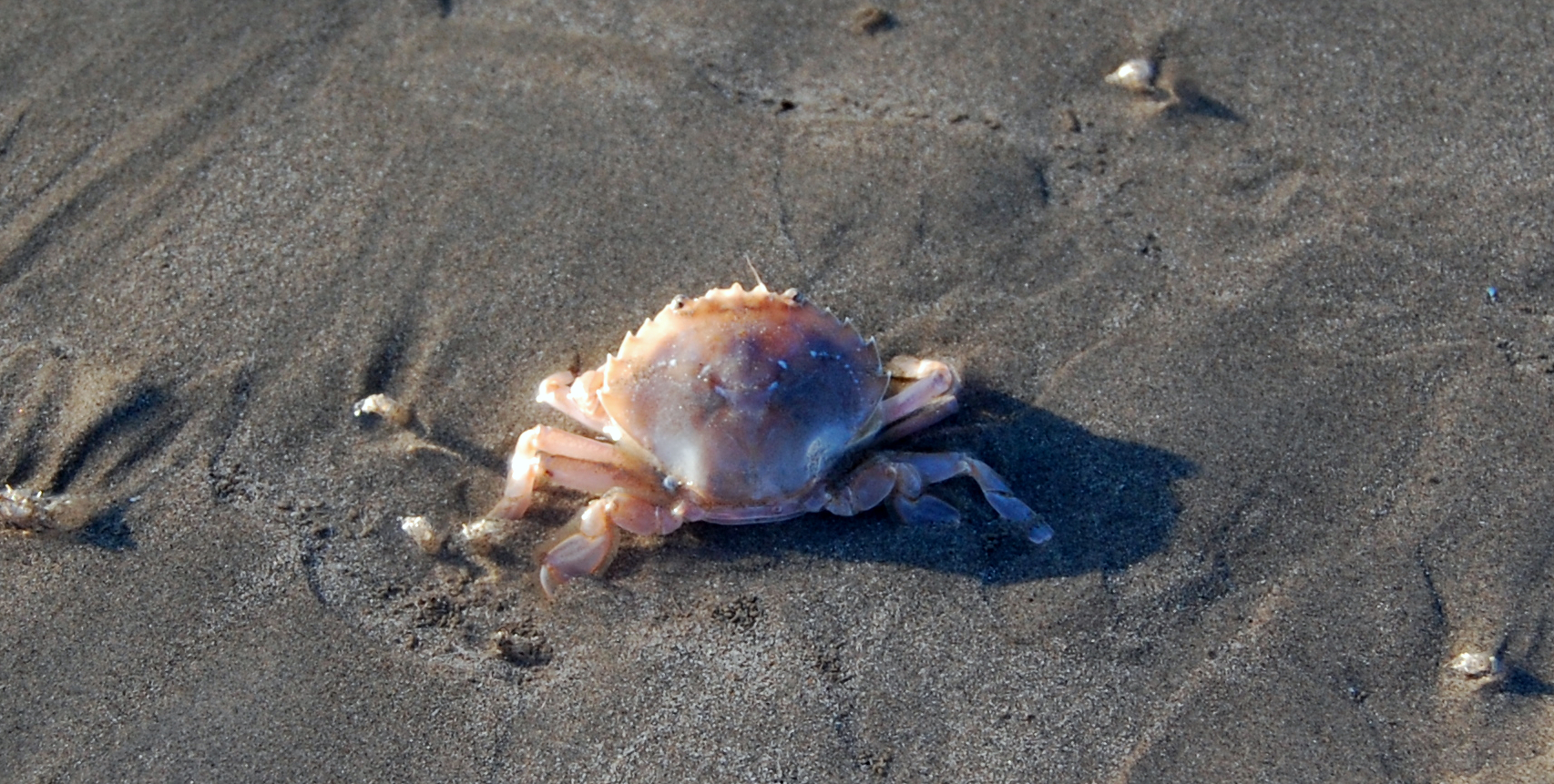 Liocarcinus holsatus, taken at the coastline of Heist, Belgium.